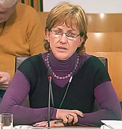 Clare McGlynn, Professor of Law, Durham University, gives evidence on the Abusive Behaviour and Sexual Harm (Scotland) Bill, criminalising image-based sexual abuse, the practices also known as ‘revenge pornography’, to the Justice Committee of the Scottish Parliament.